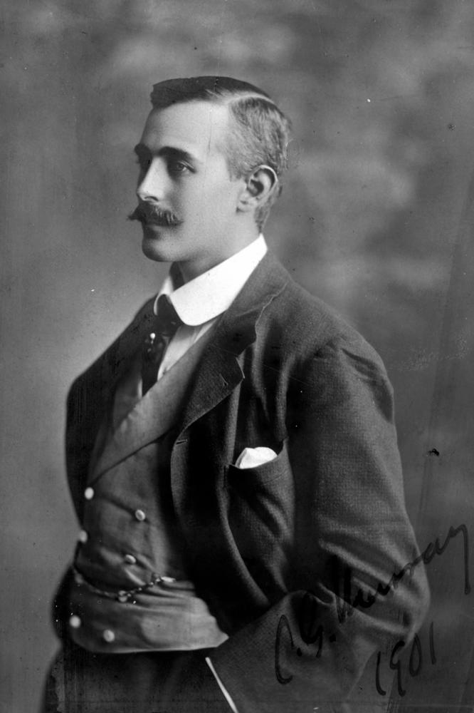 A. G. Murray, 1901. A. G. Murray is pictured in a double-breasted suit and tie, with a fob watch on a chain. He is wearing a topcoat over this suit.